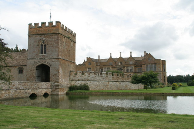 Broughton Castle entrance The Gatehouse and the main house from across the moat.